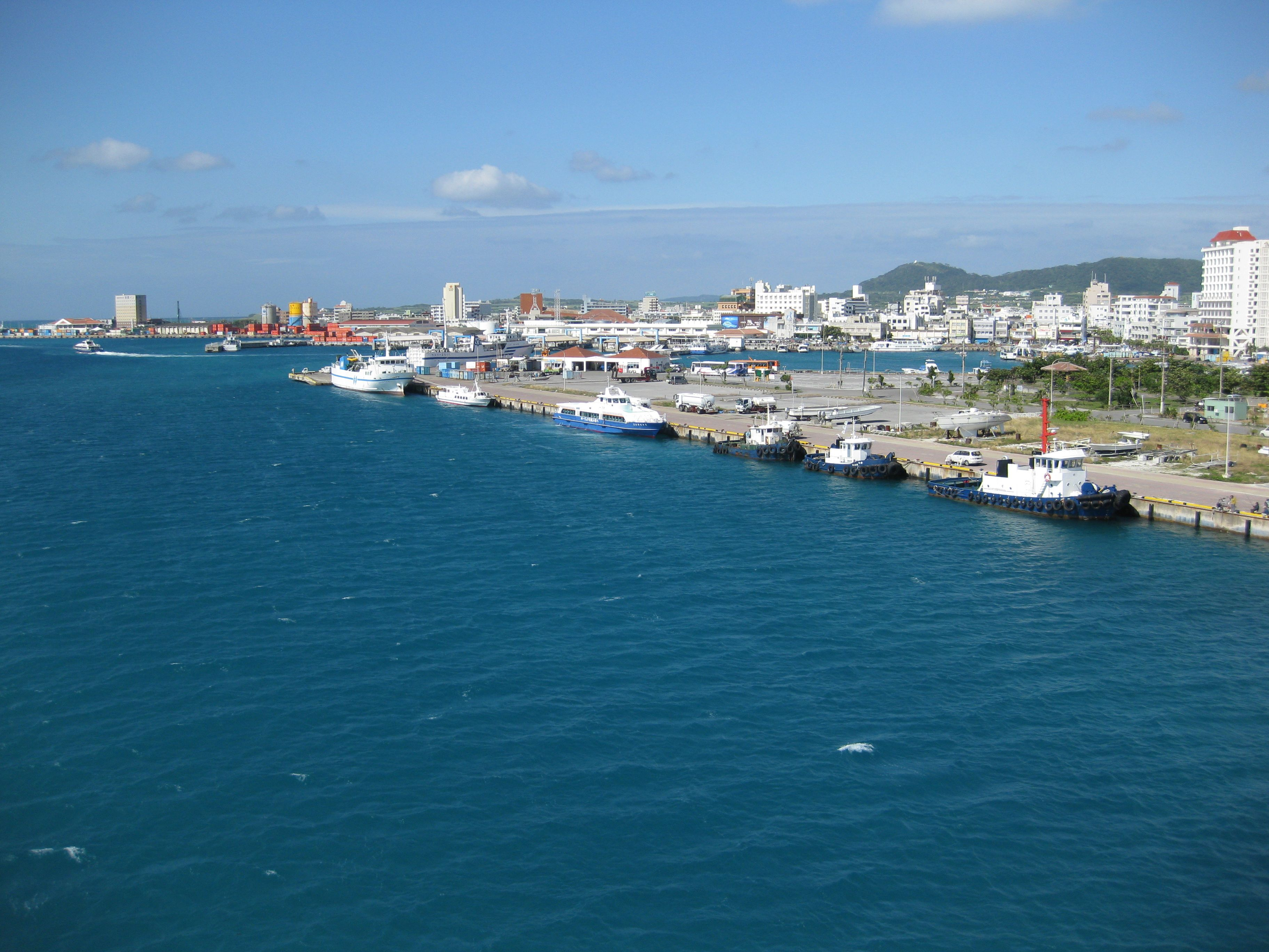 Ishigaki Port in Okinawa, Japan